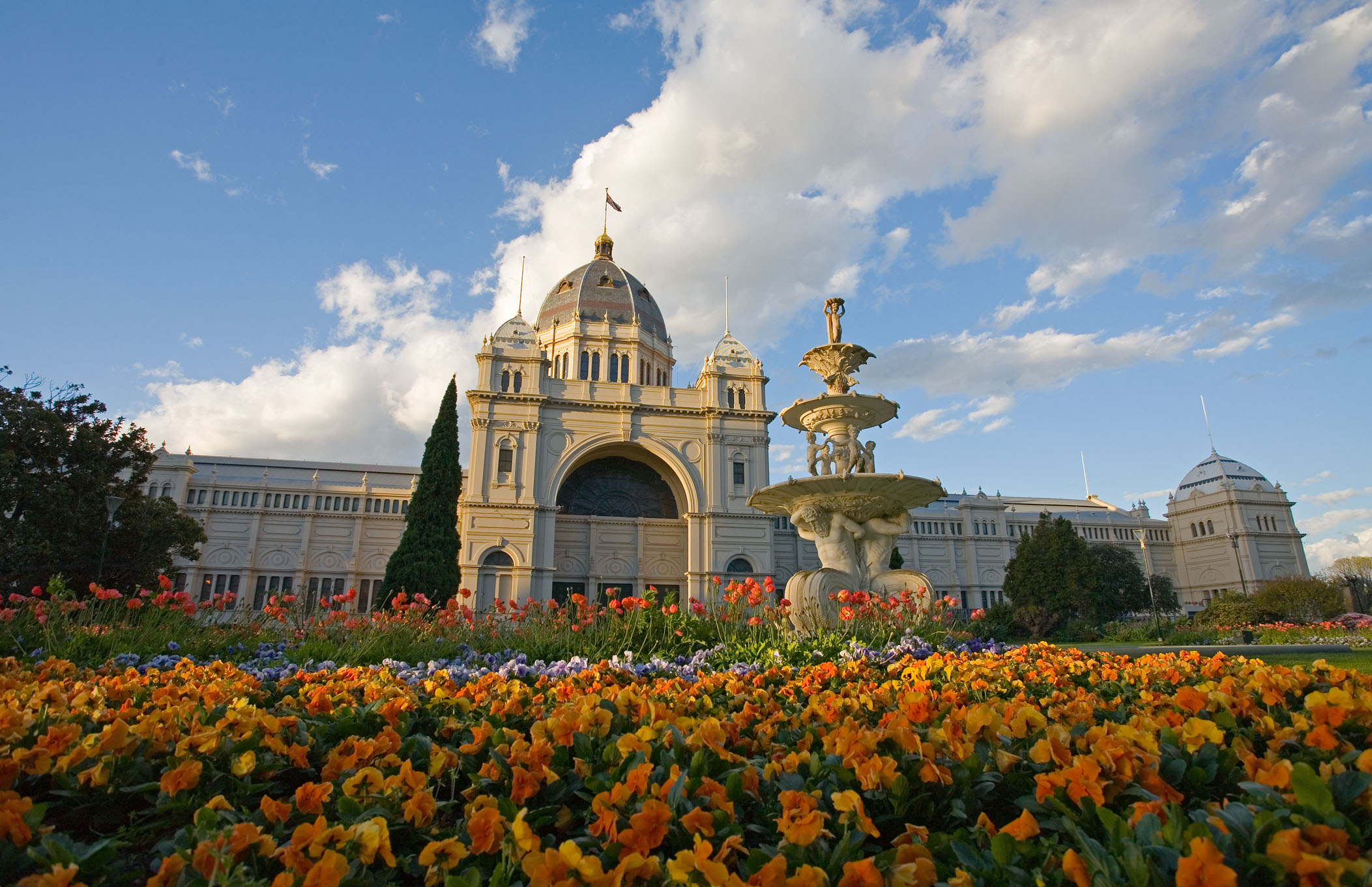 A view of the south-facing side of the Royal Exhibition Building in Melbourne, Australia. It was built in 1880 and is the first building to be given a World Heritage Site listing in Australia. This image was taken with a Canon 5D and 17-40mm f/4L lens on 13th of October, 2005.